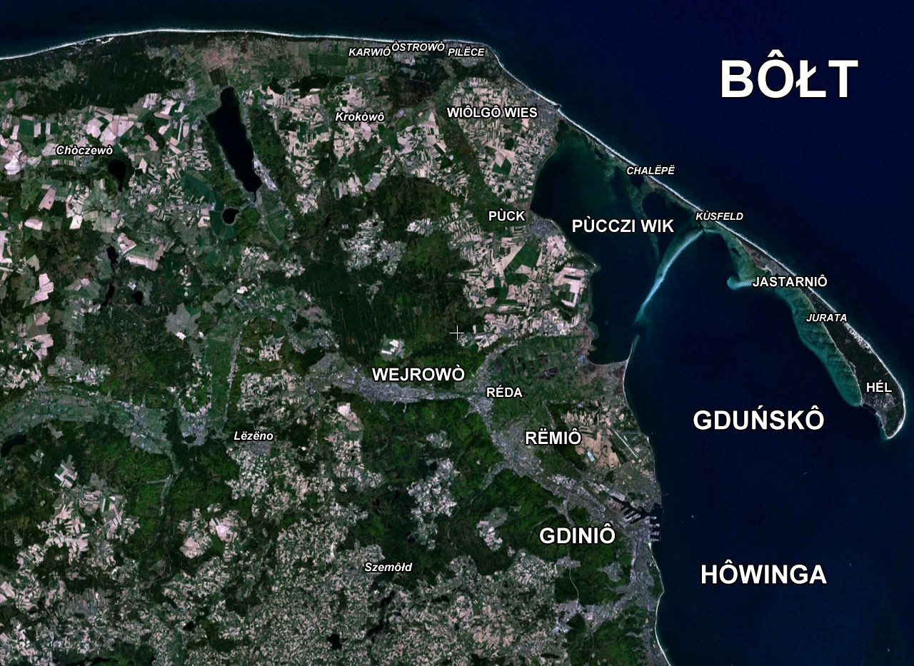 The Kashubian Norda region, from csb.wiki, made by Ùczk; in public domain